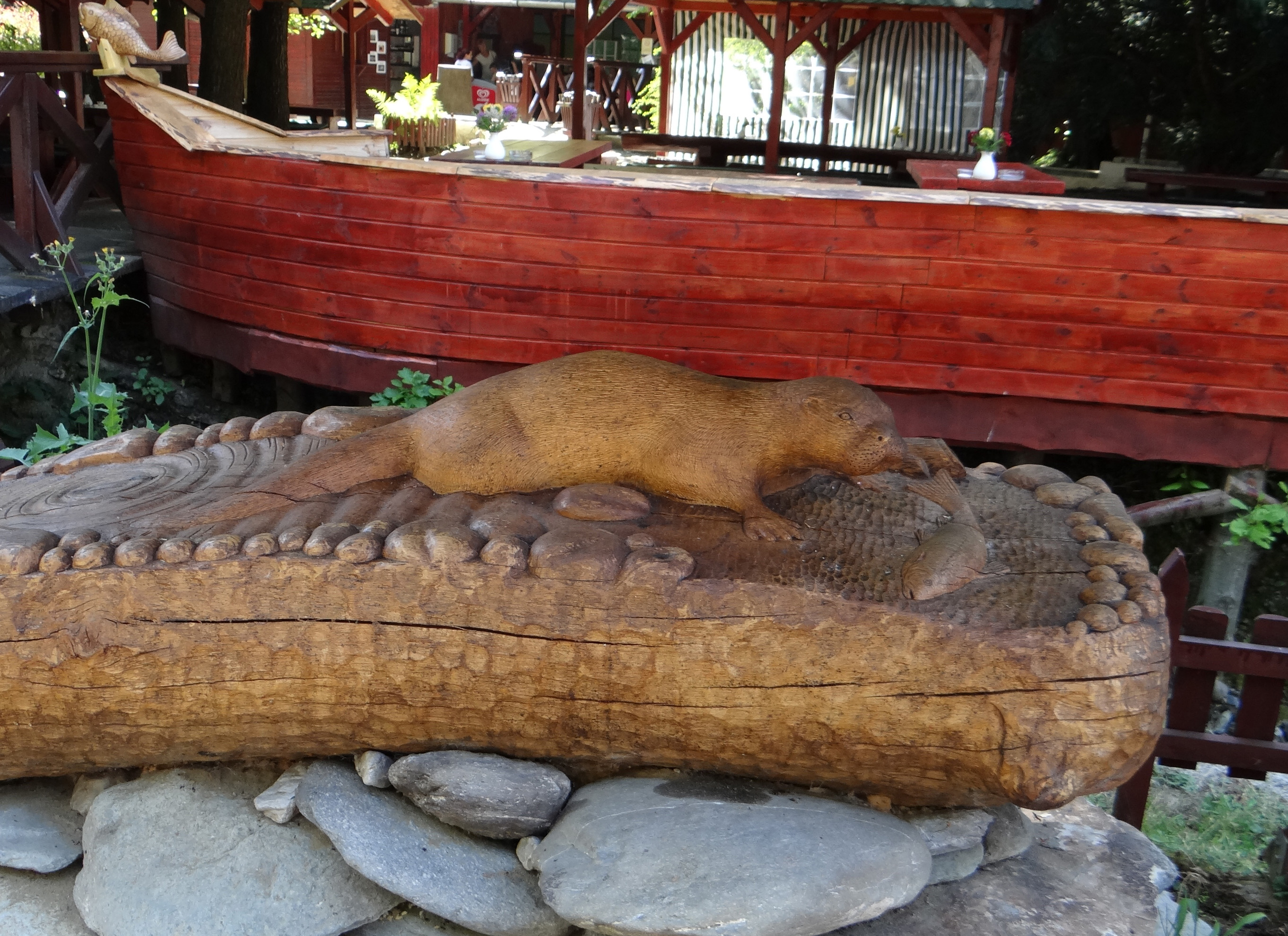 Sándor Szondy: Lutra (2011). Wooden sculpture in Lillafüred trout plant, Miskolc, Hungary